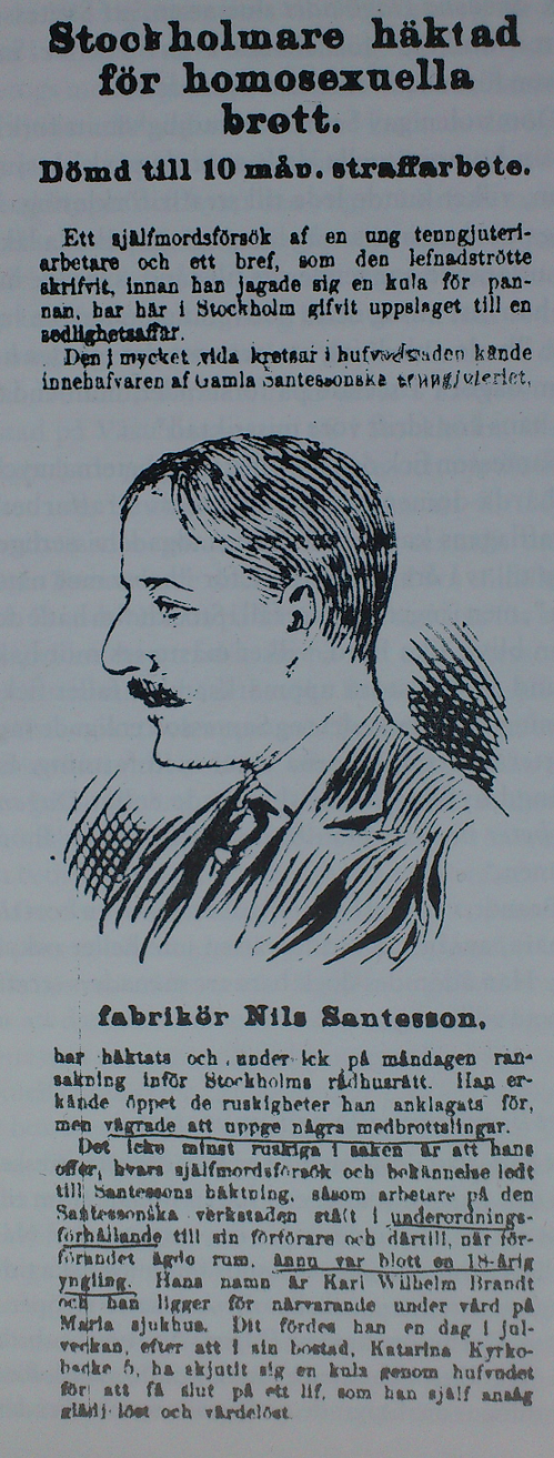 A clip from the Swedish paper Fäderneslandet, 23rd of January 1907, on the scandal of the pewterer Nils Santesson ((1873—1960)